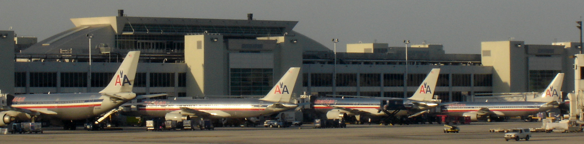 American Airlines planes at Concourse D, Miami International Airport